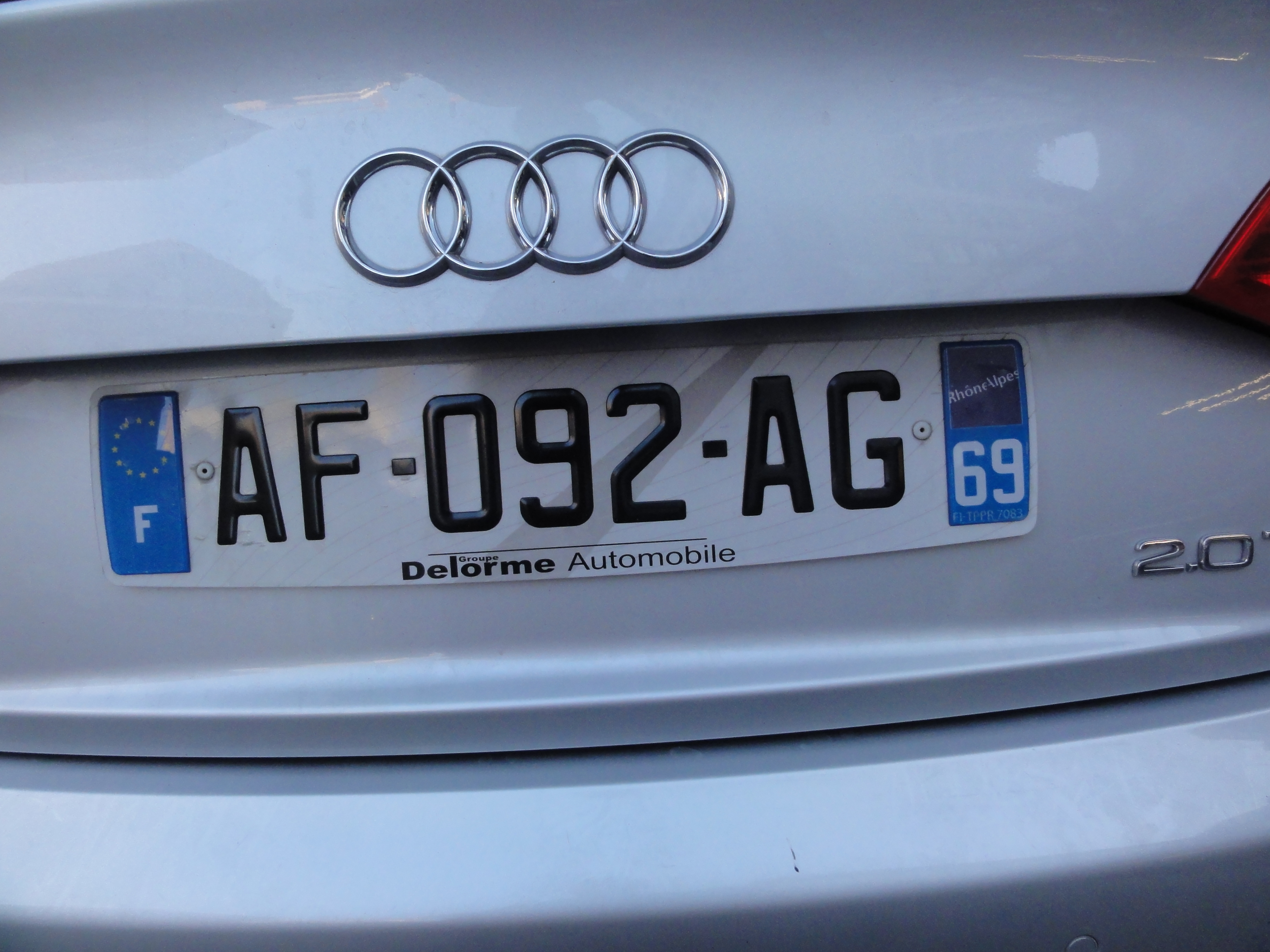 France — New license plate of automobiles